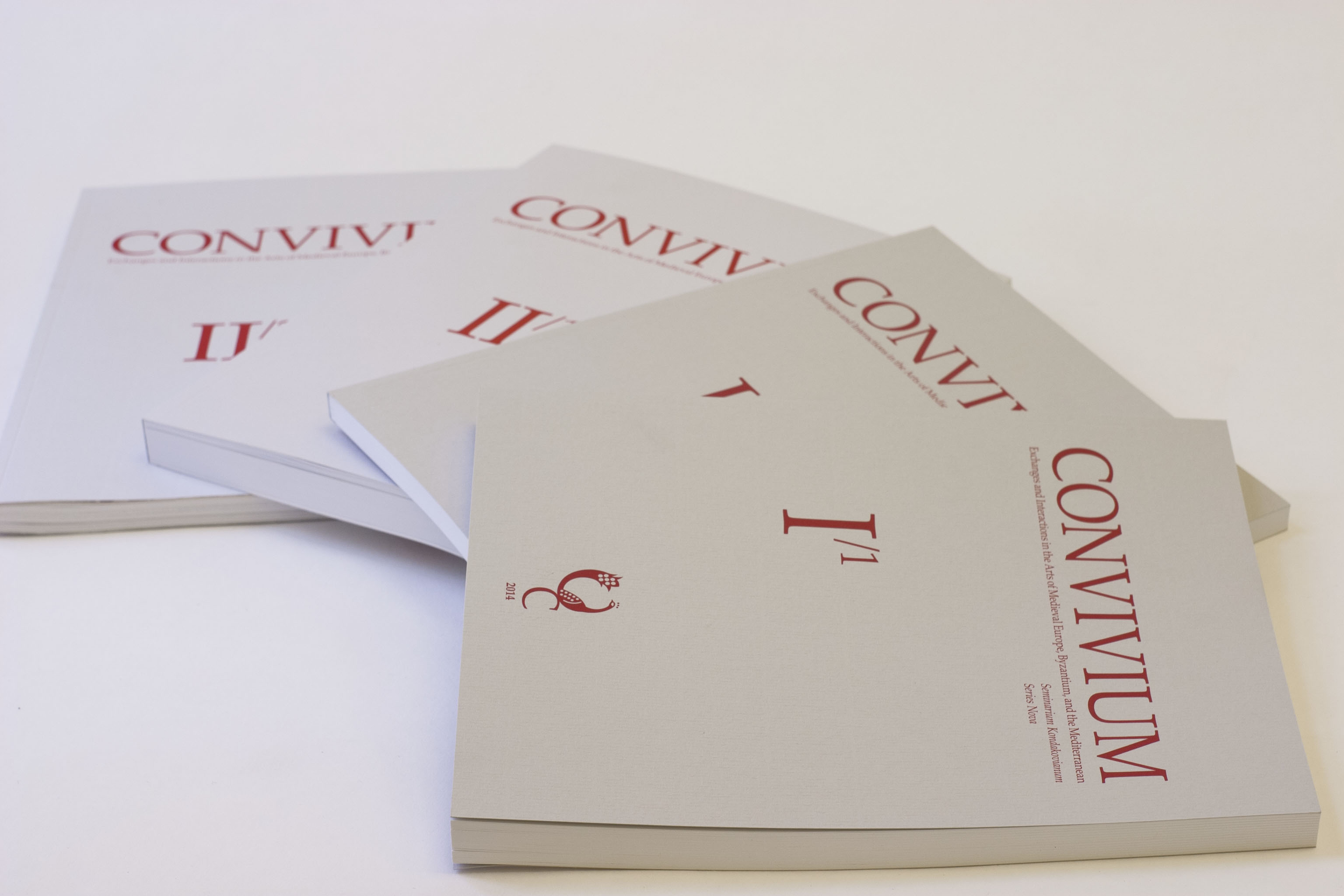 Convivium journal.